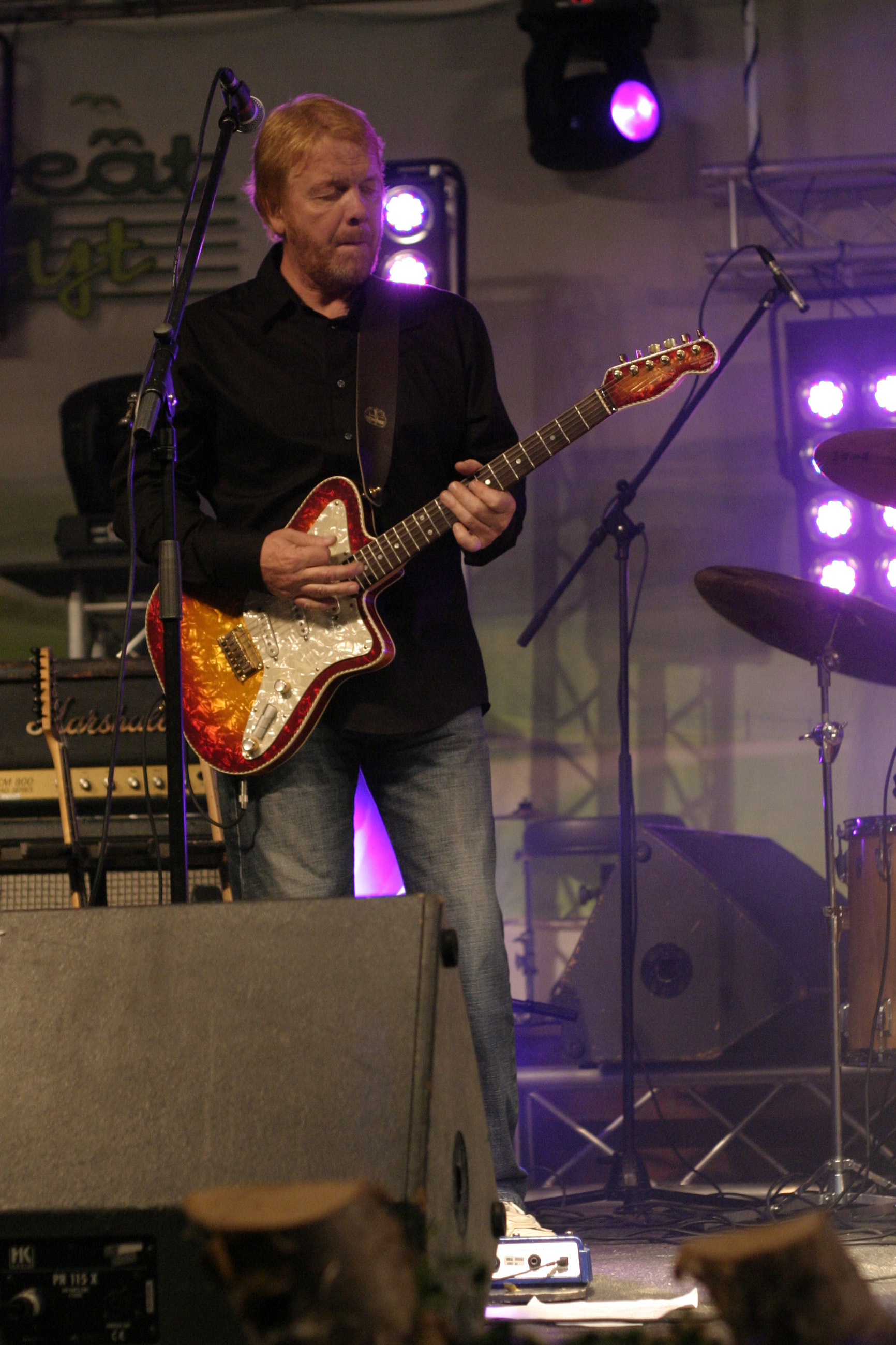 Heikki Silvennoinen at "Vihreät Niityt" -musicfestival 15.7.2007, Kiuruvesi